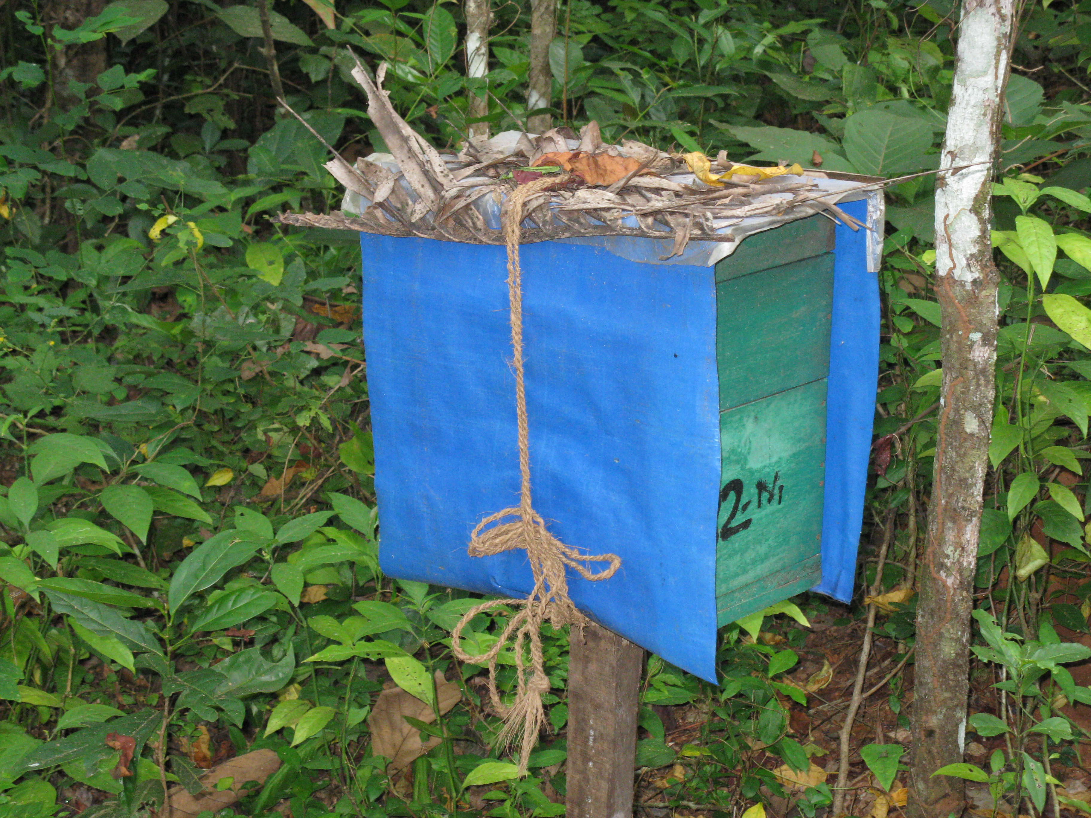 Honeybox used by farmers in Kerala